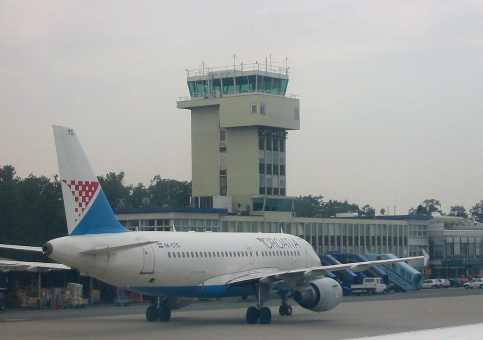 Croatia Airlines A319 (9A-CTG)